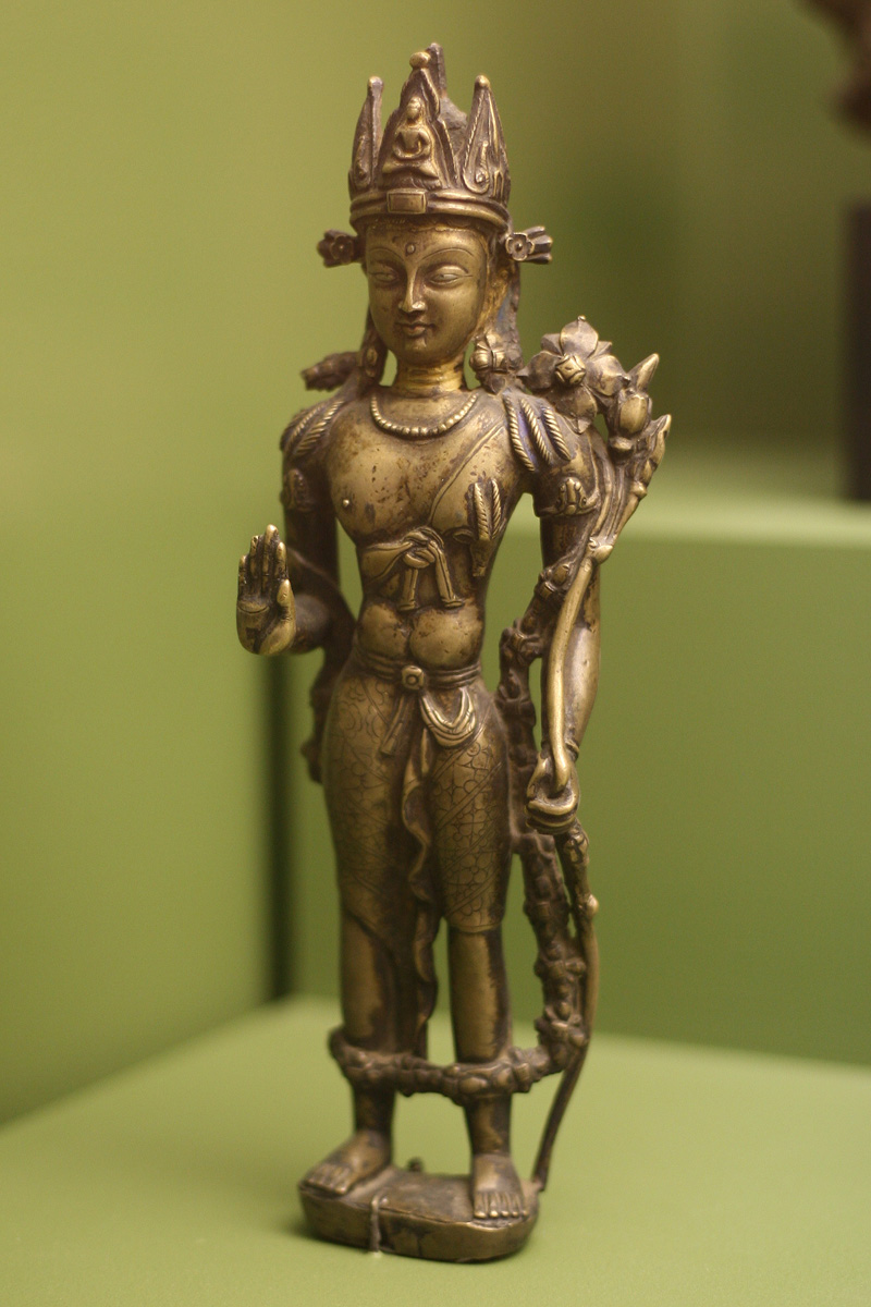 Bronze statue of Avalokiteśvara, also referred to as Padmapāni Bodhisattva Padmapani, 11th-12th century. Bronze. Brooklyn Museum, Anonymous gift, 78.256.4. Wikipedia Loves Art at the Brooklyn Museum This photo of item # [1] at the Brooklyn Museum was contributed under the team name "shooting_brooklyn" as part of the Wikipedia Loves Art project in February 2009. Brooklyn Museum The original photograph on Flickr was taken by shooting brooklyn—please add a comment to the original Flickr page whenever a use has been made on Wikipedia or another project. Project galleries on Flickr: this institution, this team